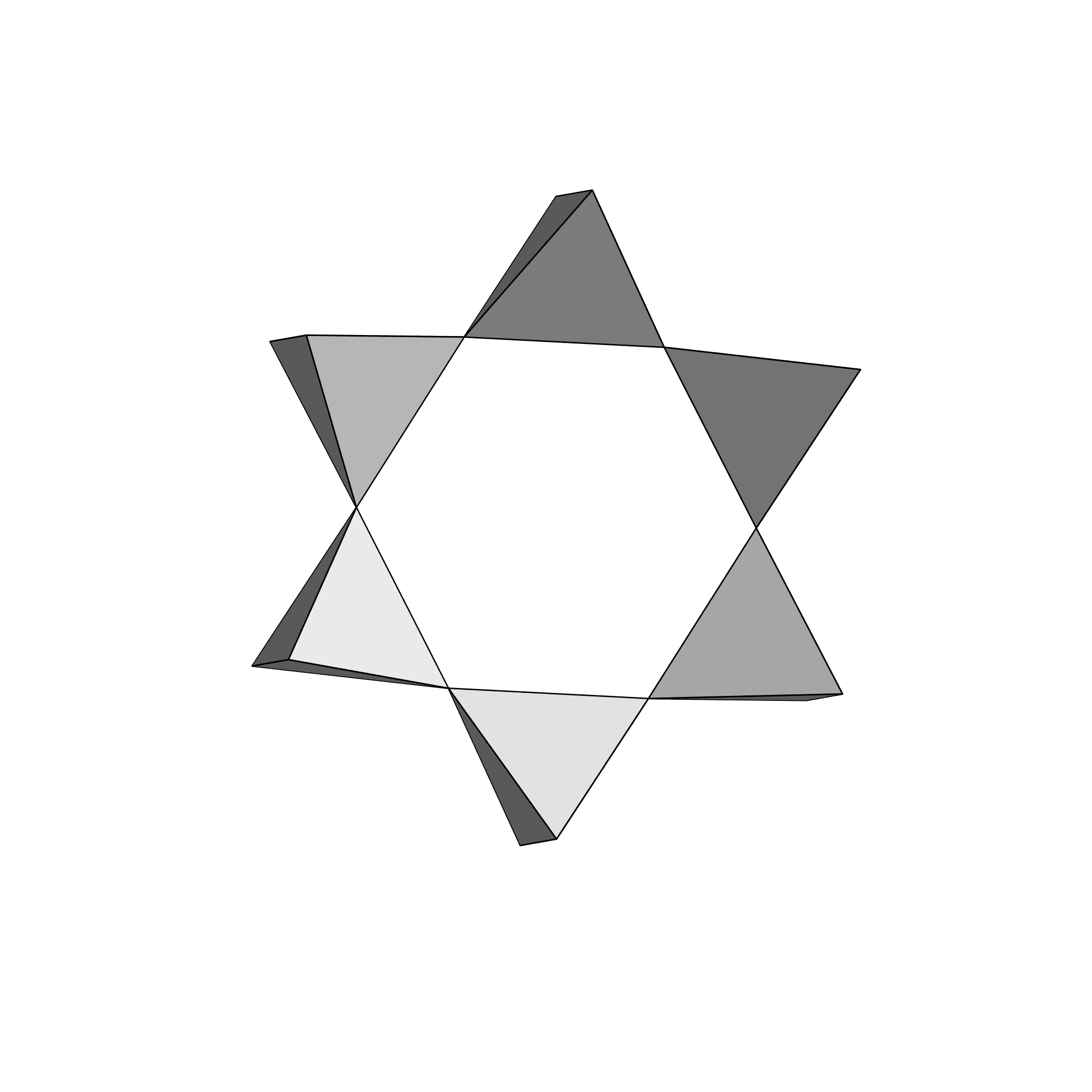 Unbranched 6er single ring of beryl Data from: Brown G. E., Mills B. A. (1986): High-temperature structure and crystal chemistry of hydrous alkali-rich beryl from the Harding pegmatite, Taos County, New Mexico, American Mineralogist 71, pp. 5547-556 Calculation of image data: Larry W. Finger, Martin Kroeker, and Brian H. Toby, DRAWxtl, an open-source computer program to produce crystal-structure drawings, J. Applied Crystallography V40, pp. 188-192, 2007 Rendering: POVRAY